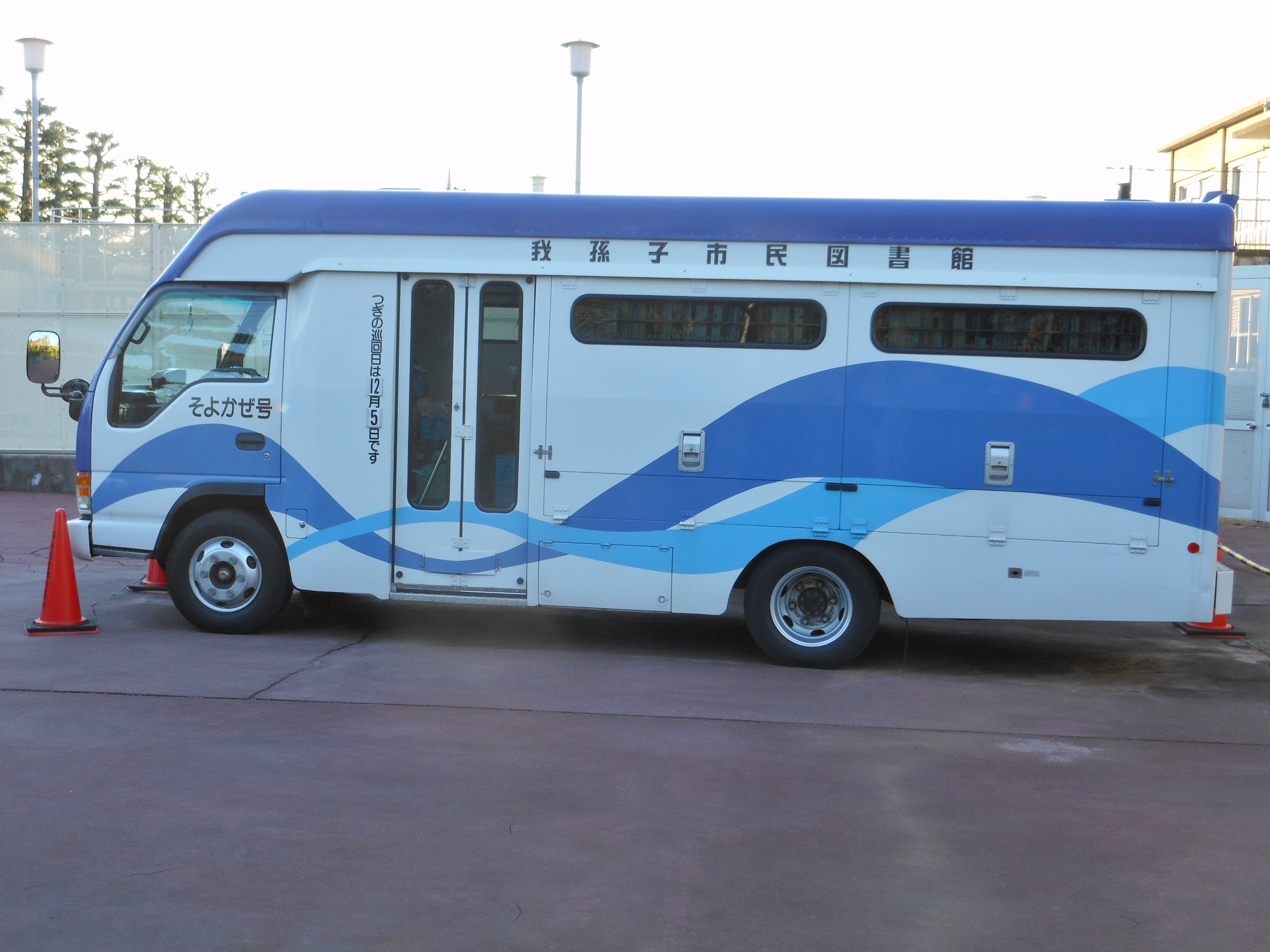 This is the Abiko City Library Bus "Soyokaze-go" in Chiba, Japan.